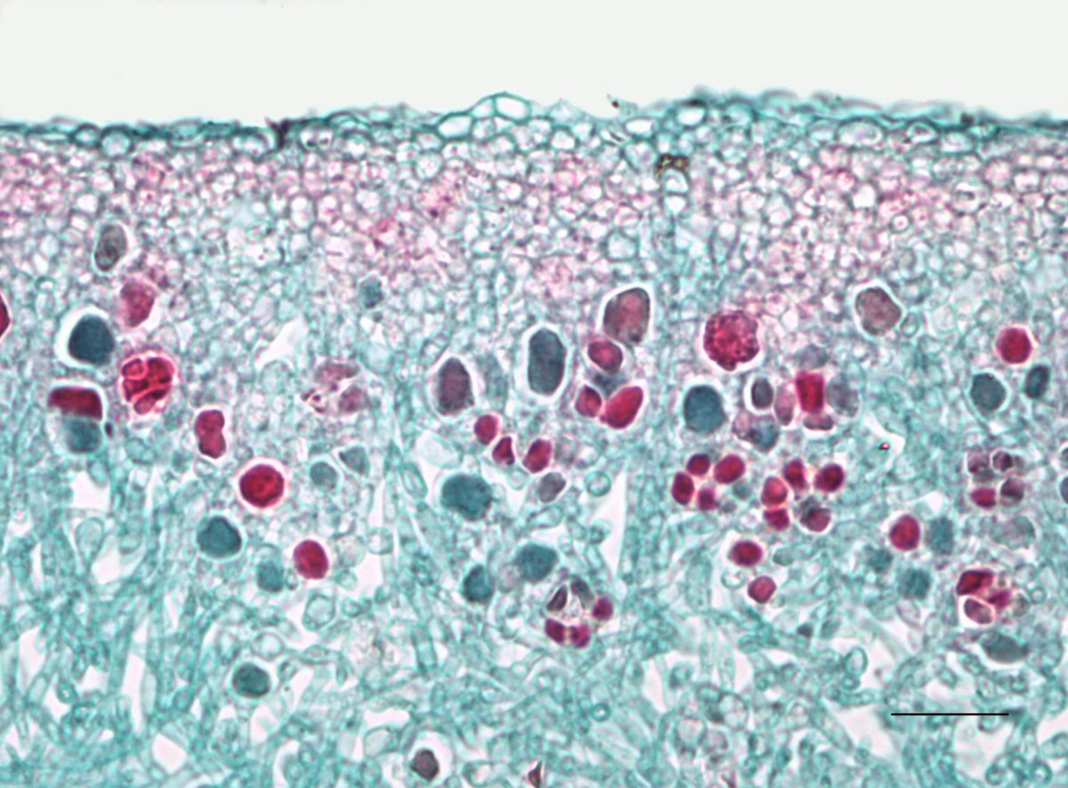 Light microscopy of Umbilicaria showing a transverse section in which algal cells, the medulla, and the fungal layer can be seen. Scale bar = 0.02mm.